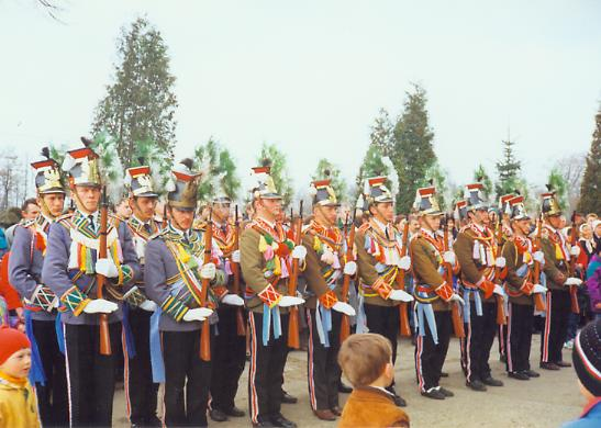 Turki in Grodzisko Górne (Poland)